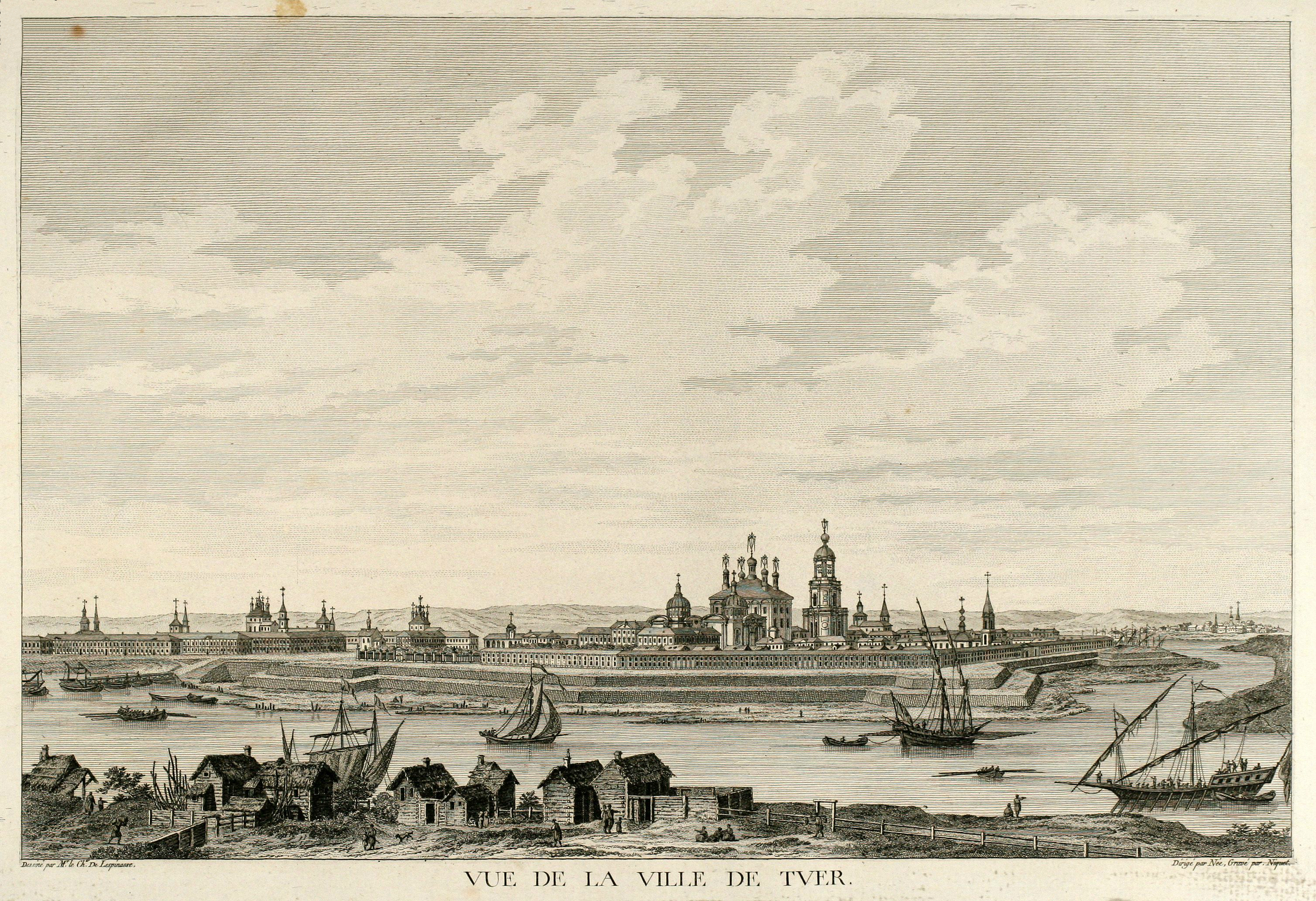 General view of the city of Tver, 1783